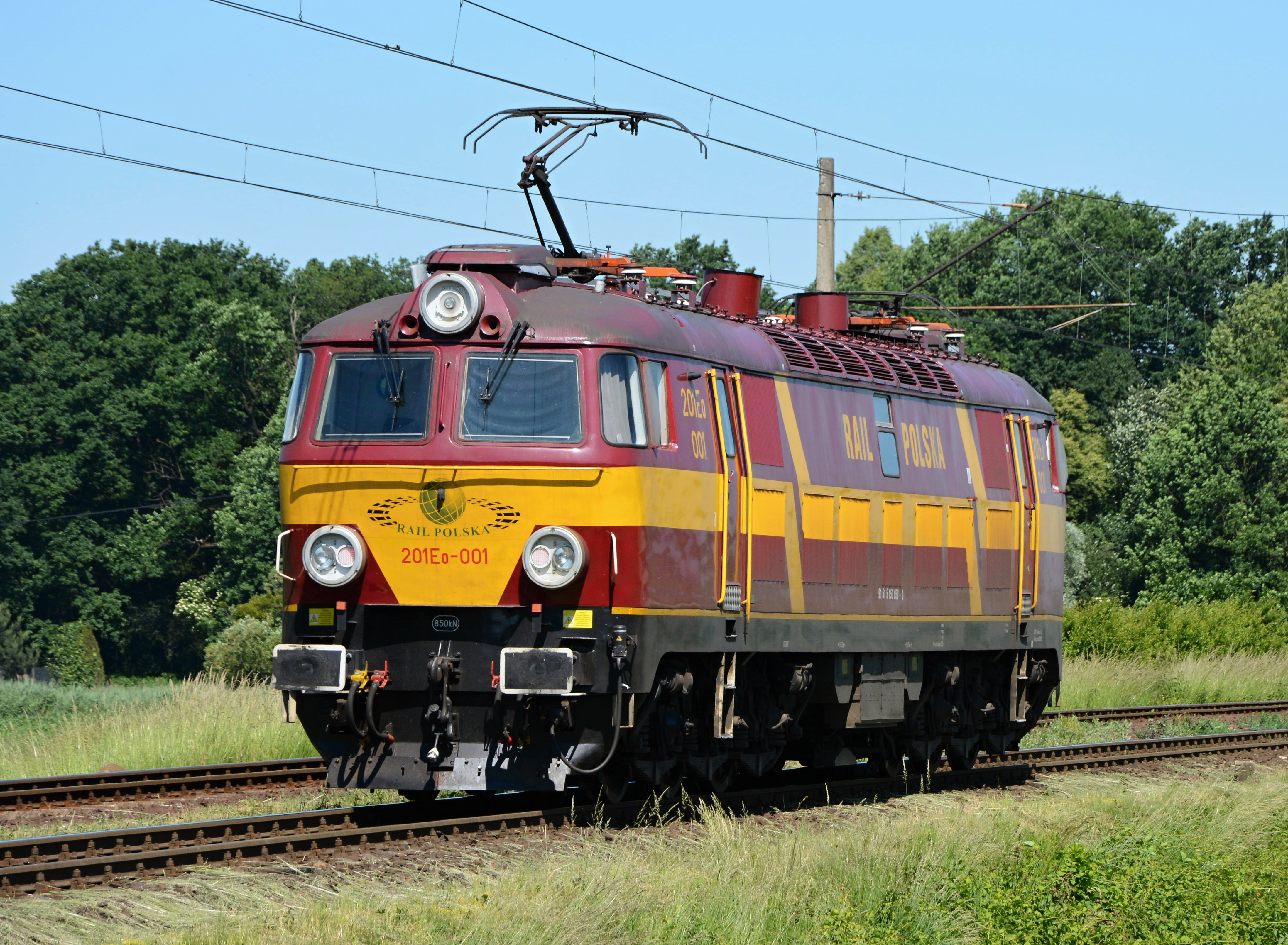 Locomotive 201Eo-001 of Rail Polska; near Tworków stop.